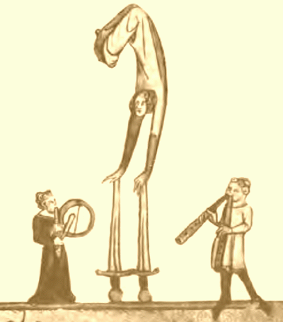 A gymnast performs using two swords, accompanied by two musicians, one on pipe and tabor and the other on double recorder-type instrument.